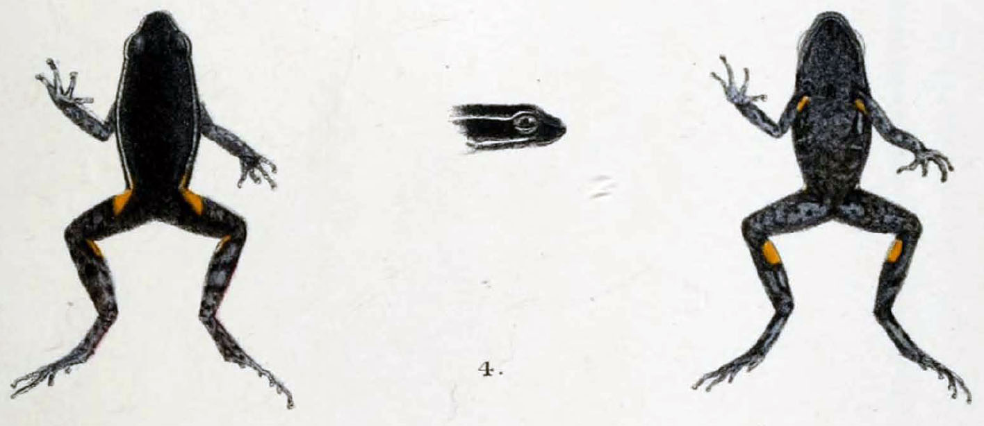 Original illustration of the holotype of Ameerega hahneli (Boulenger, 1884)